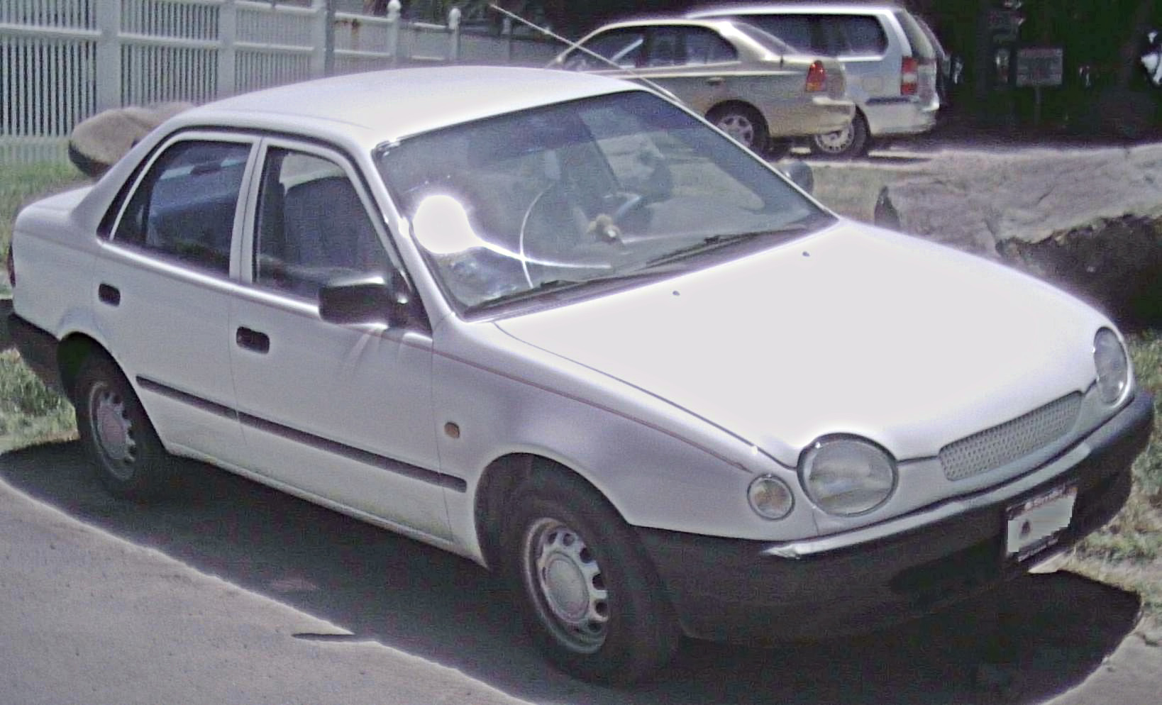 1996-2000 Toyota Corolla (European) photographed in St. Marteen.